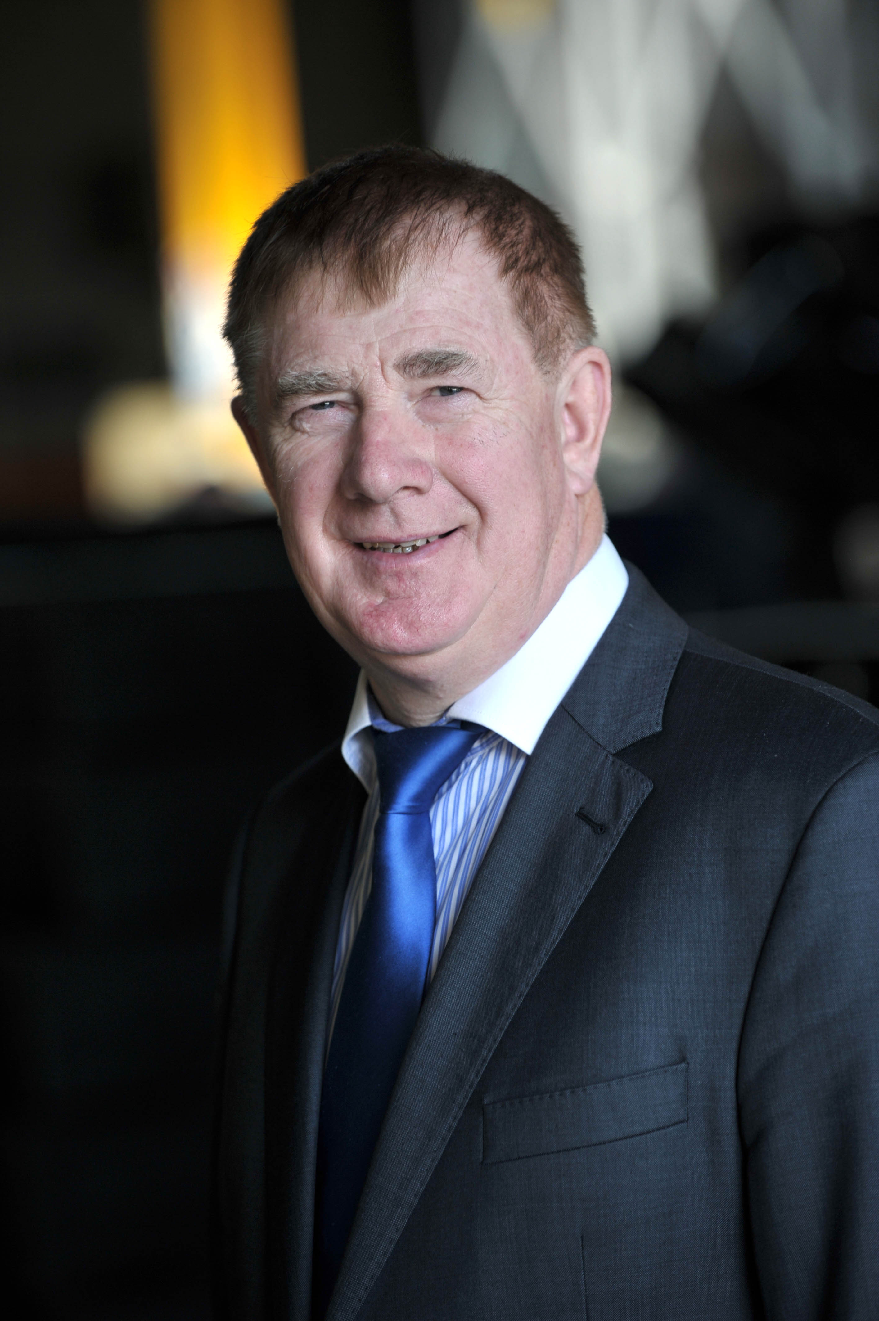 Profile Image of John Concannon, Managing Director of JFC Manufacturing